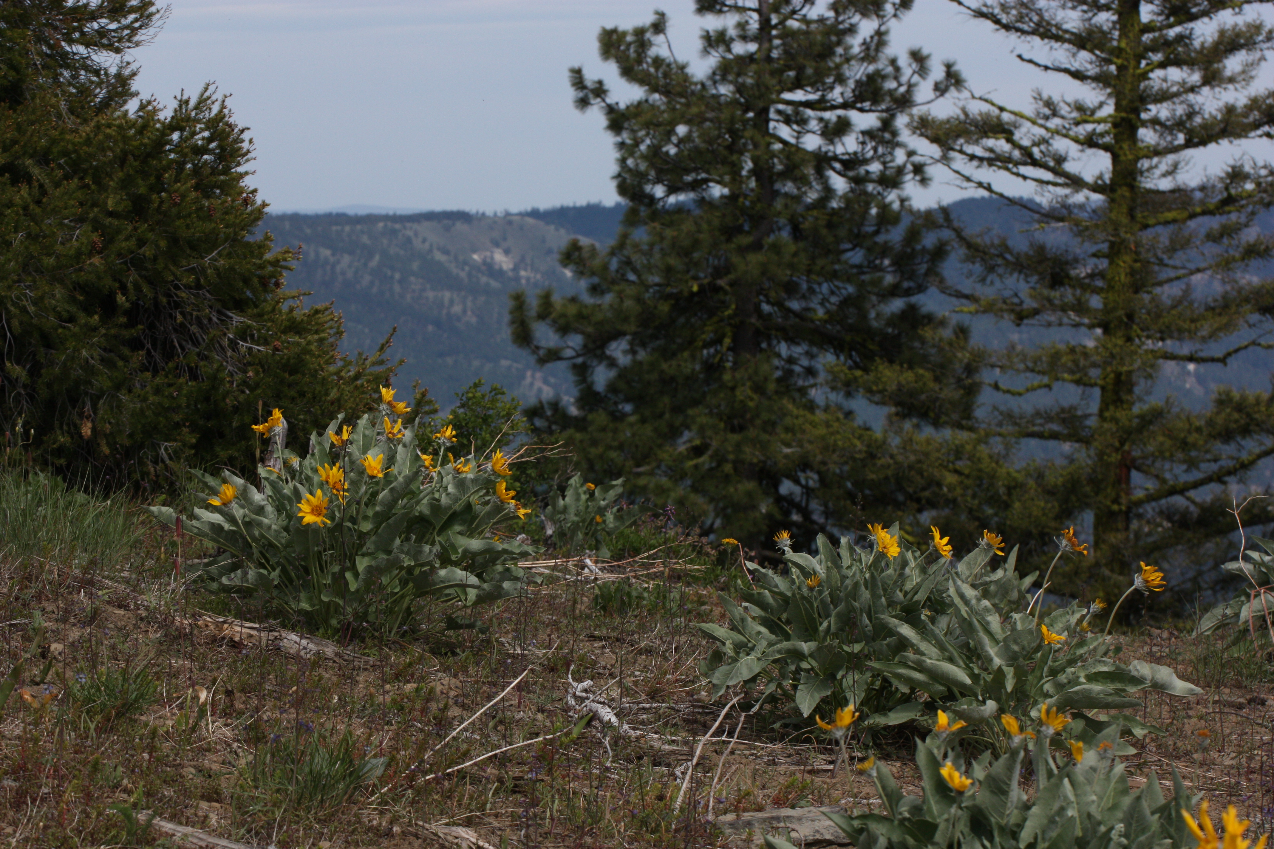 Arrowleaf Balsamroot Viewpoint location: Tronsen Ridge Trail #1204, Tronsen Ridge Viewpoint elevation: 1376 meter (4513 ft) Location source: Garmin GPSmap 60CSx Location Datum: WGS84